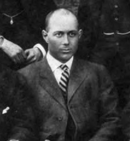 W. Rice Warren, President of the General Athletic Association, University of Virginia, circa 1914